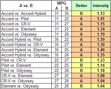 Part of a series of images to illustrate an article on the Analytic Hierarchy Process